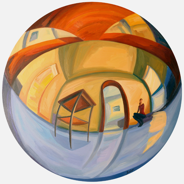 Little woman in big room. Lilla Bodor. Painting. Tondo. Round picture. Oil on canvas. Diameter: 90cm